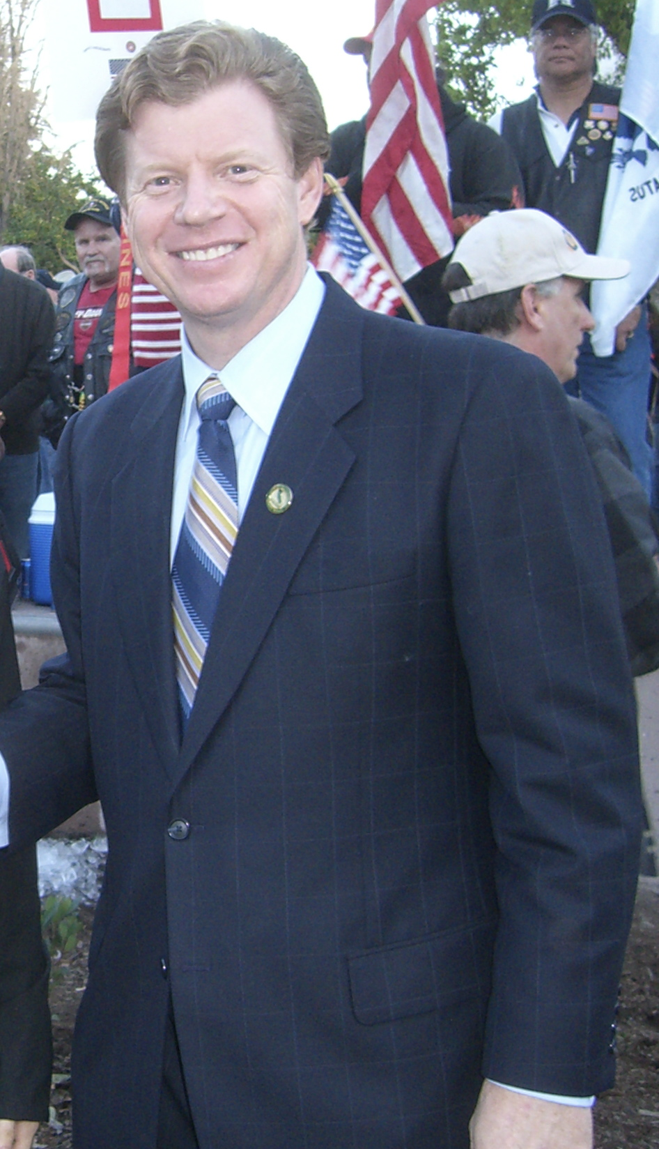 Guy Houston on February 12, 2008 in Berkeley, California. He was the to support the pro-military protesters in the Berkeley marines recruiting controversy of 2008.